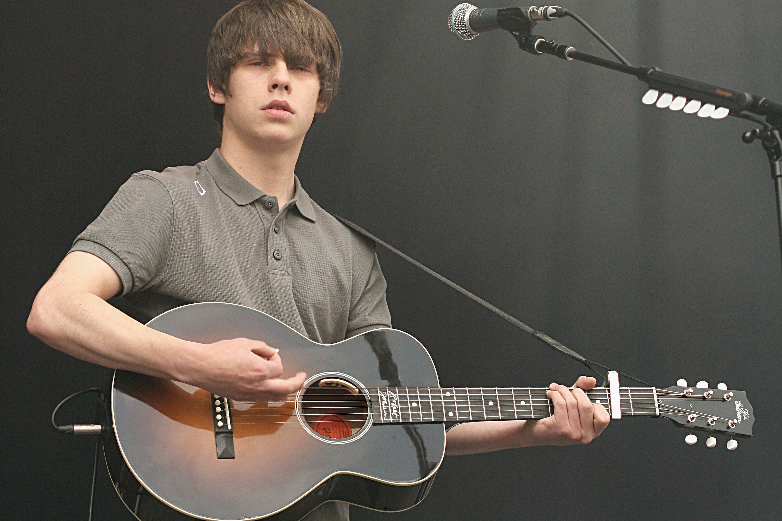 Jake Bugg stands on the Alterna Stage of Rock im Park-Festival 2013. Festivalsommer This photo was created with the support of donations to Wikimedia Deutschland in the context of the CPB project "Festival Summer".